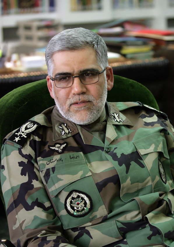 Ahmadreza Pourdastan, commander of Ground Forces of Islamic Republic of Iran Army.